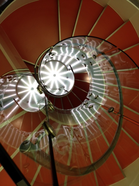 The staircase from the 2nd floor art gallery.Site: Bohemian National Hall